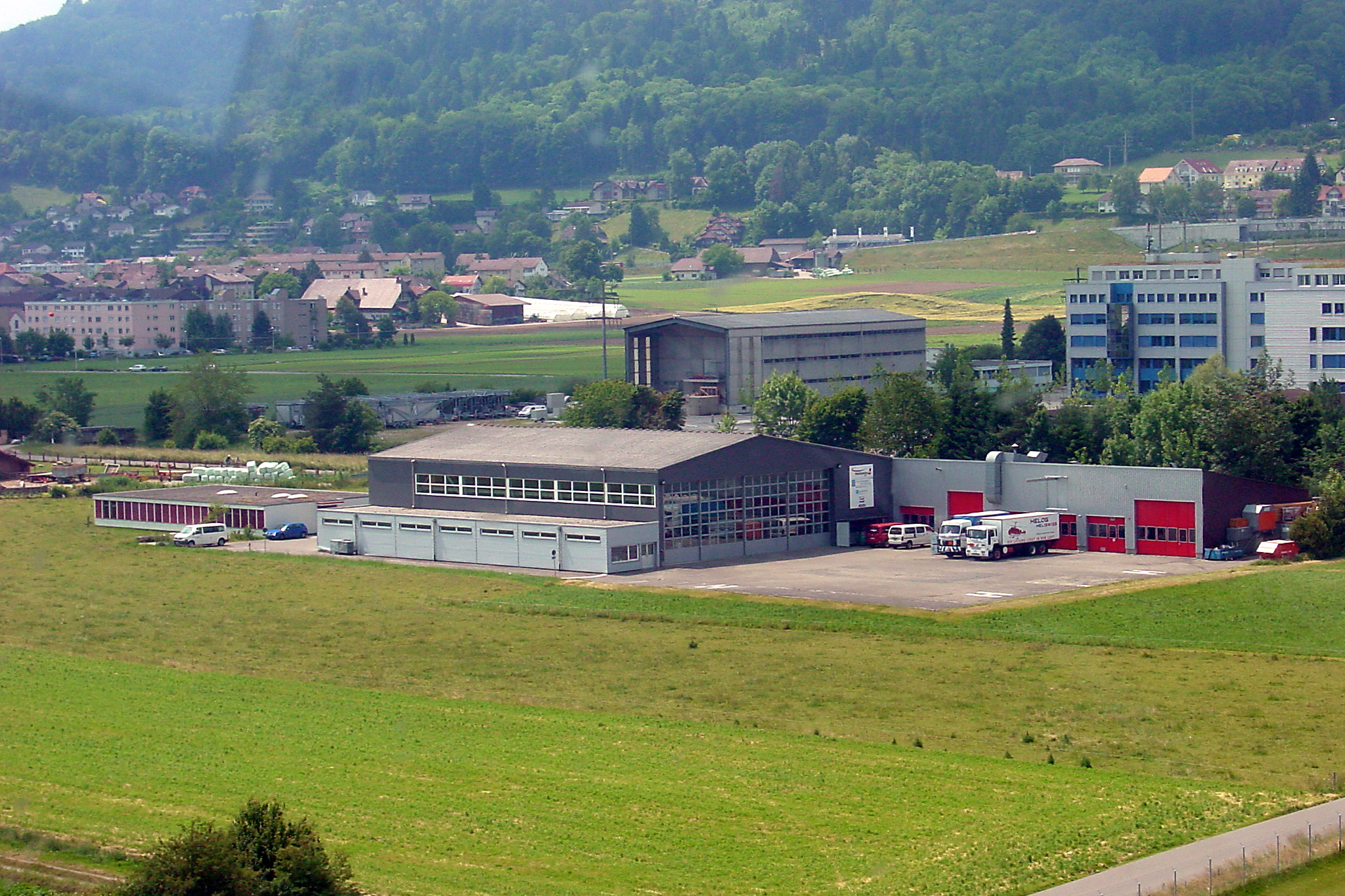 The head office of Heliswiss